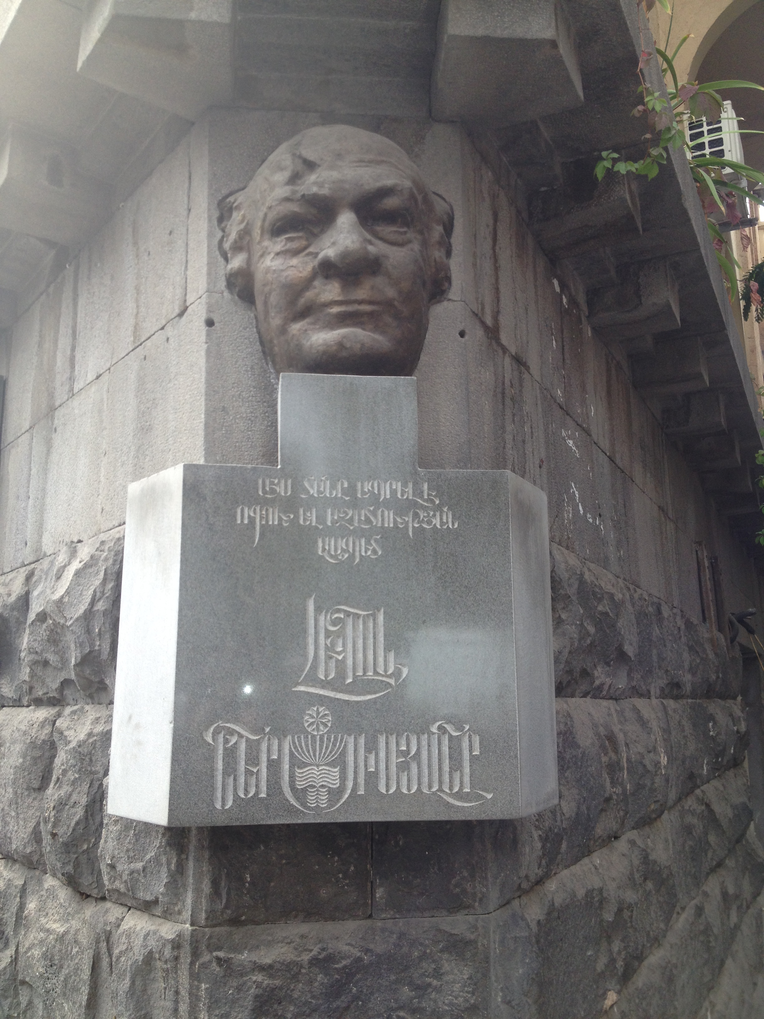 Plaque of Levon Nersisyan - Yerevan